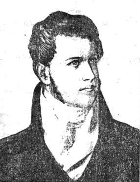 Joseph Bryan, US Representative from Georgia